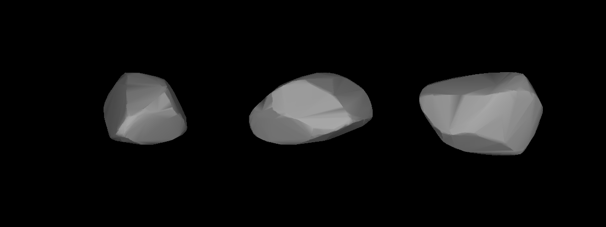 A three-dimensional model of 1691 Oort that was computed using light curve inversion techniques.